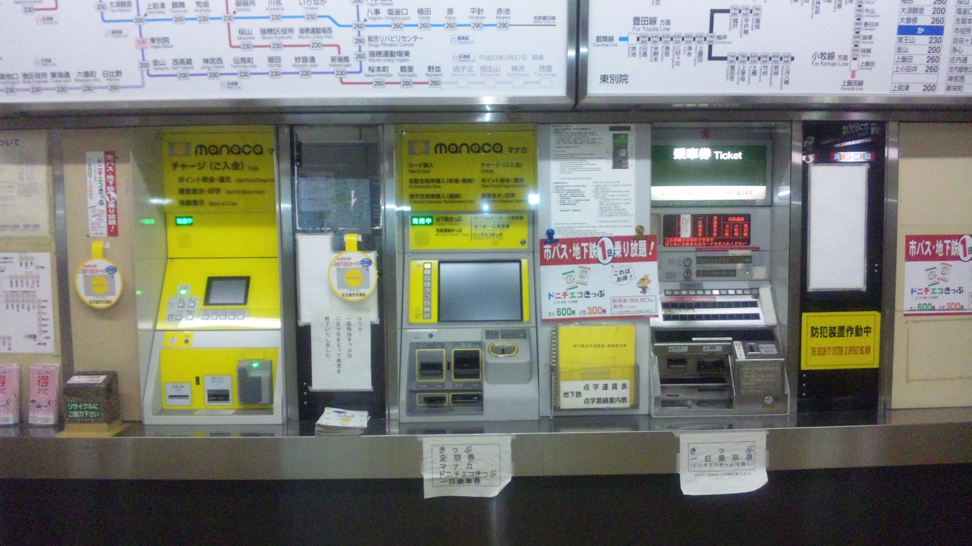 Variety of ticket machines of Nagoya Municipal Subway at Higashi-Betsuin Station. Left: fixed type machine for various operations, such as manaca top-up. Not for purchase of tickets. Center: fixed type ticket machine for purchase of magnetic tickets, day tickets and Donichi Eco Kippu (day ticket for weekend, holiday, or the 8th every month). Also for the various operations. Right: fixed type ticket machine for purchase of magnetic tickets, Yurica cards (Tranpass), day tickets and zone 1 tickets. Sales of Yurica cards and zone 1 tickets terminated.